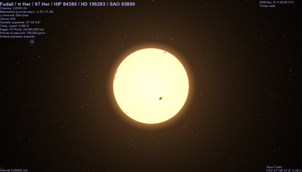 Bright K-giant star Fudail (Pi Herculis)